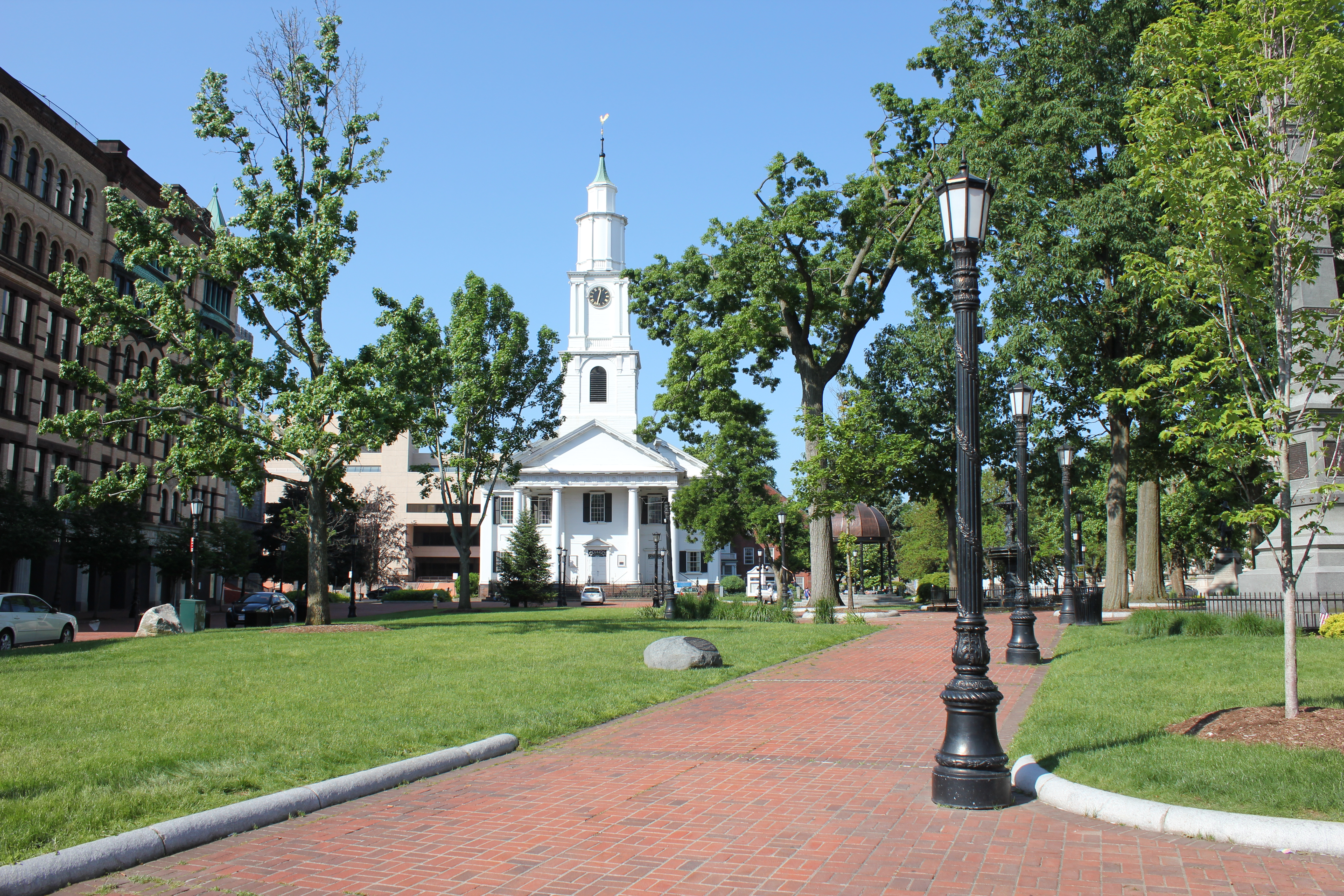 Court Square, Springfield Massachusetts, on June 2, 2013